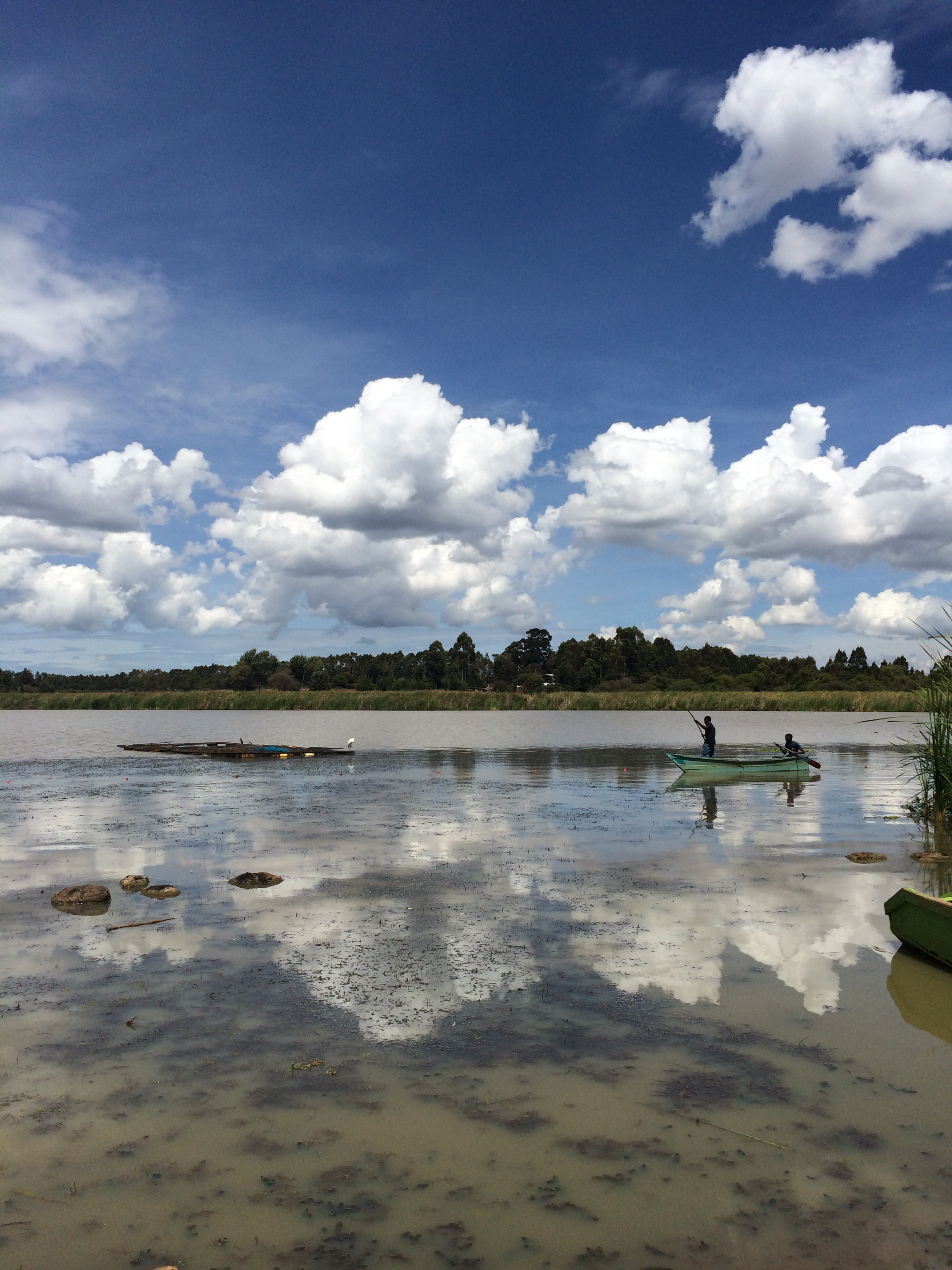 This is an image with the theme "Africa on the Move or Transport" from: Kenya